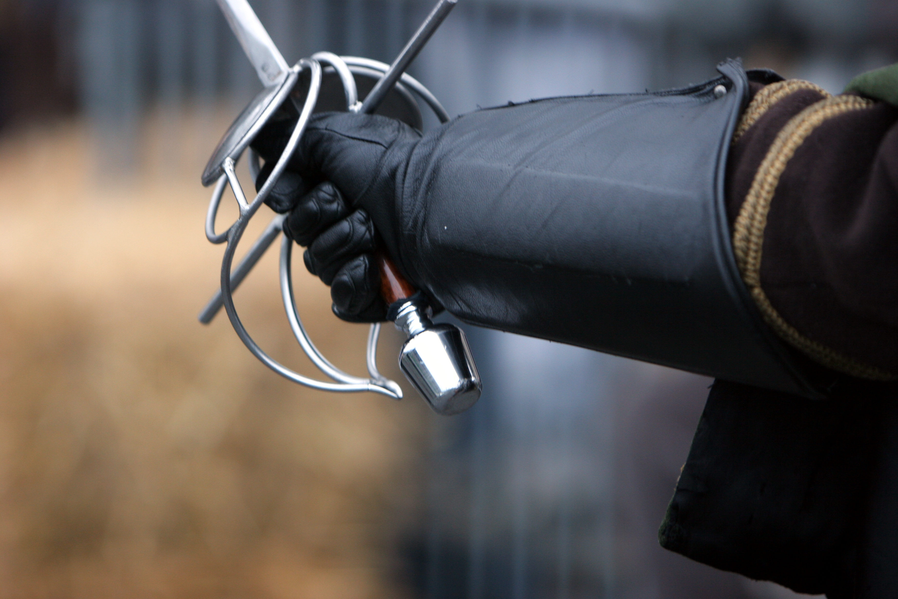 Pappenheimer rapier